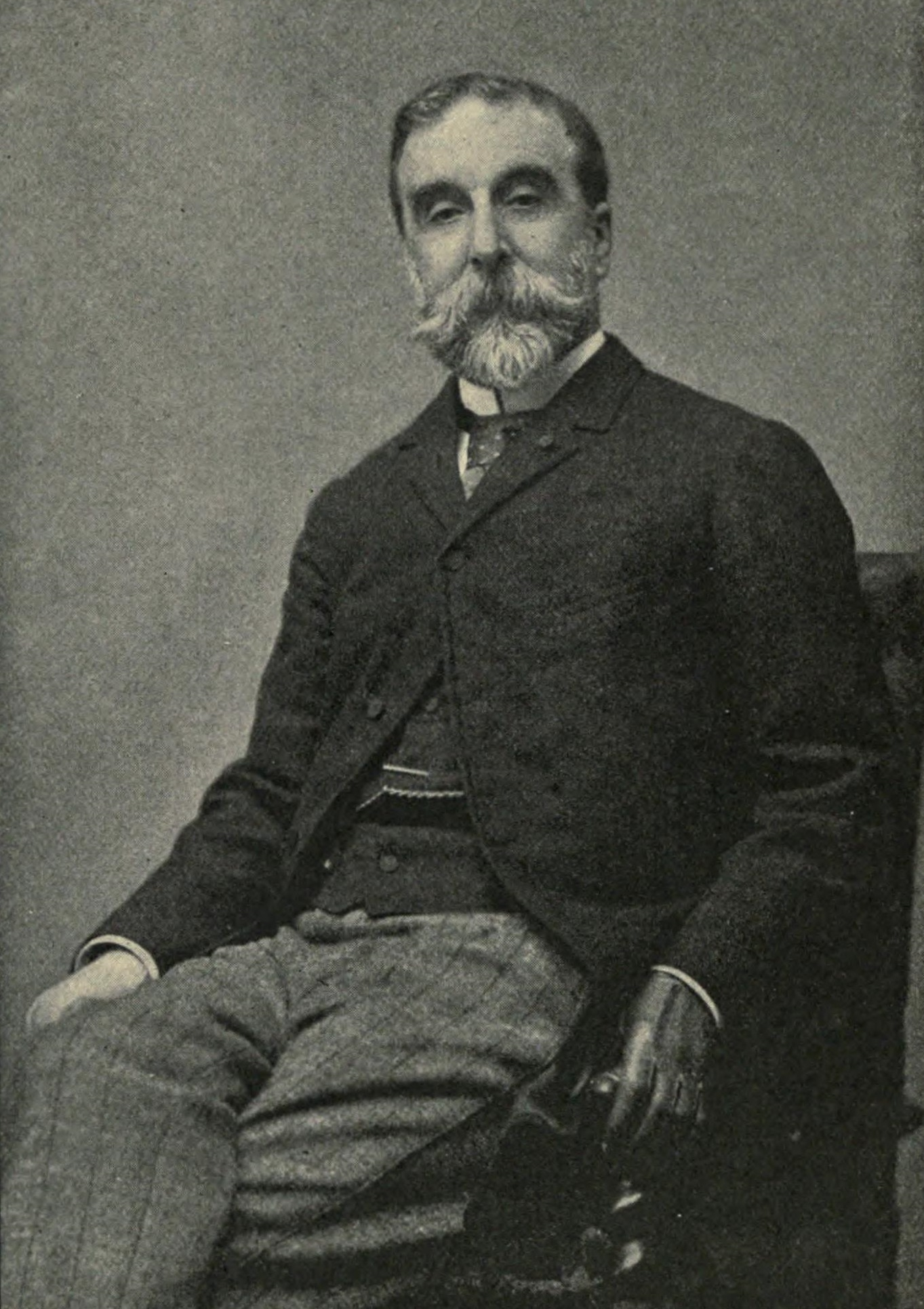 Portrait of Ludovic Halévy